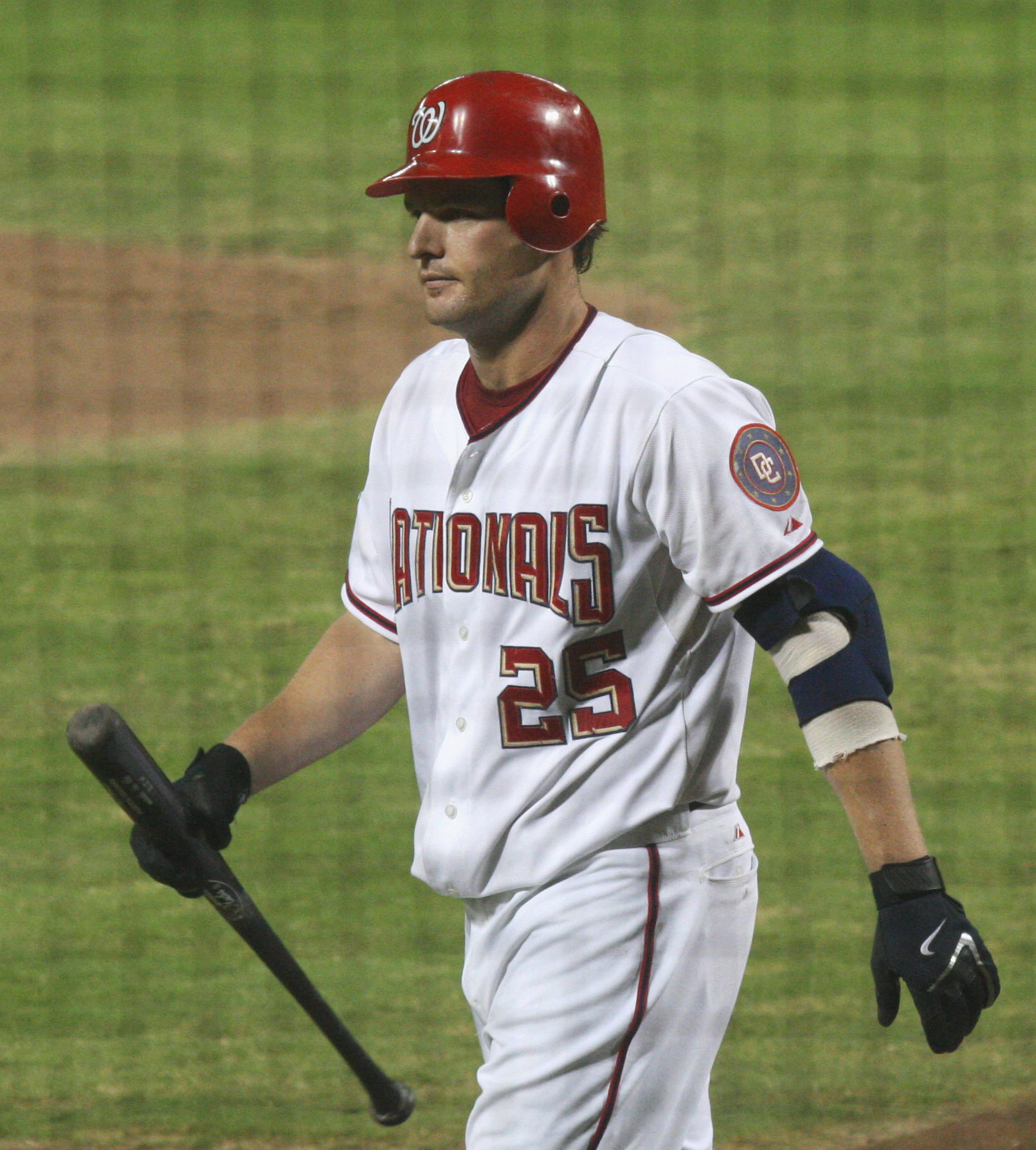 Austin Kearns